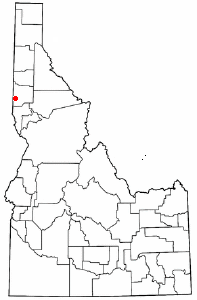 Locator map of Moscow, Idaho — in Latah County, Idaho. Credits